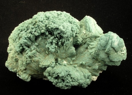 Locality: ⓘ Nashik District (Nasik District), Maharashtra, India Dimensions: 14.8 cm x 10.2 cm x 6.5 cm Aluminoceladonite-included Heulandite.